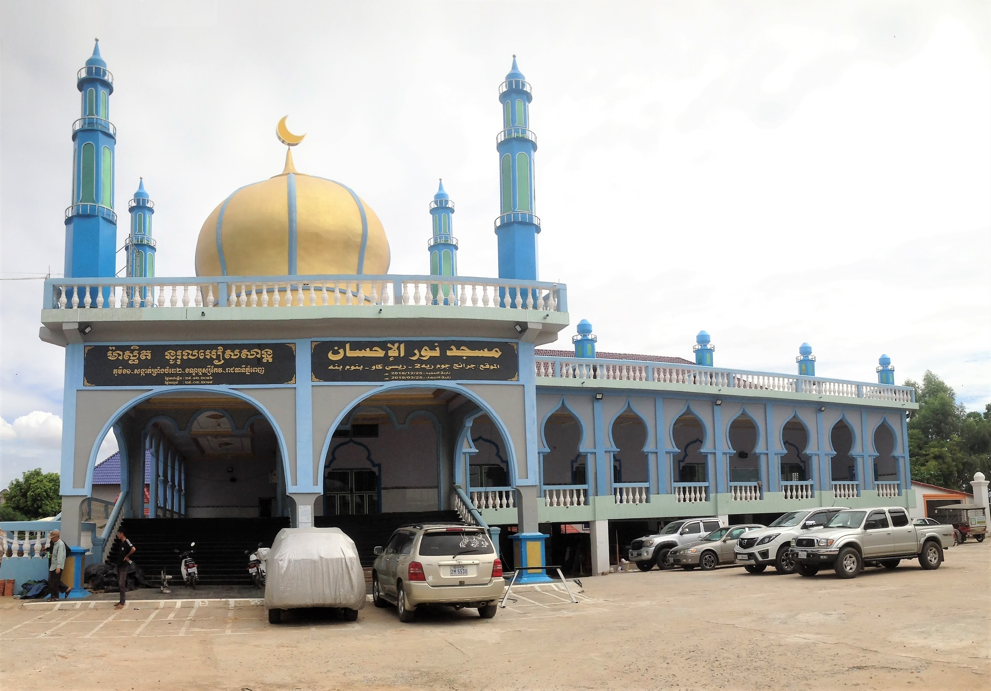 The Mosque KM7 in 2020